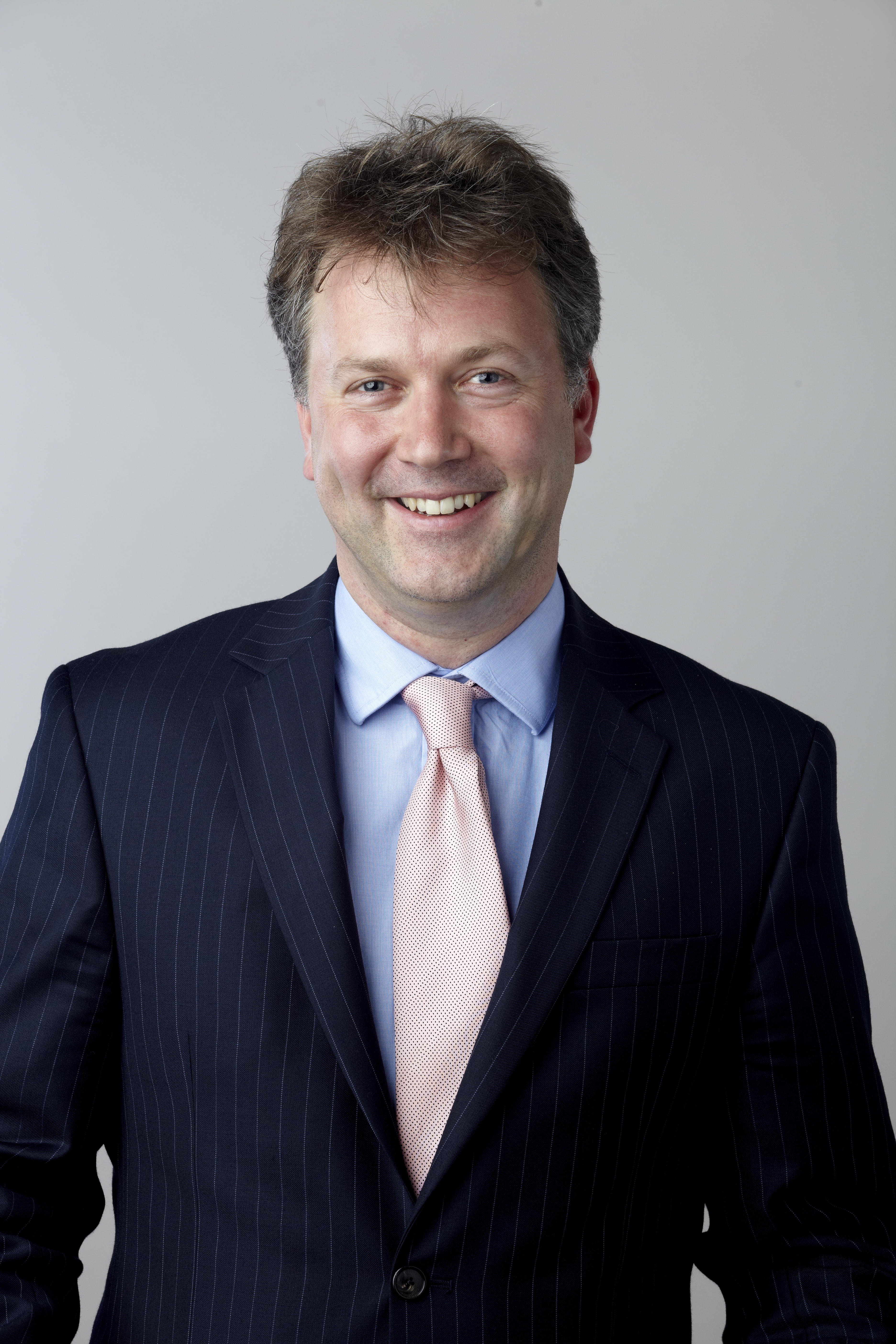 Dr Ewan Birney FRS, Royal Society Fellow elected 2014 Attribution: The Royal Society